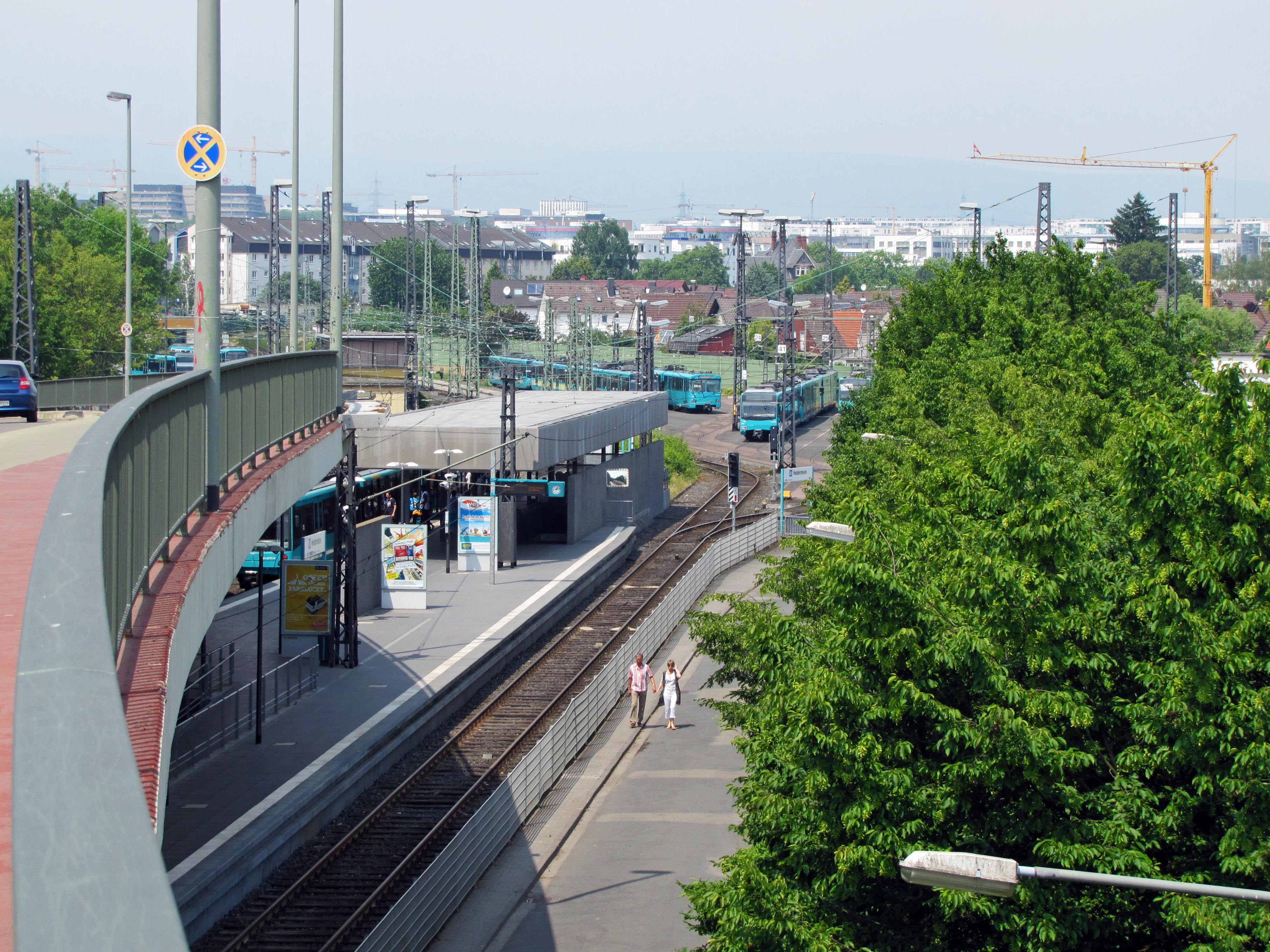 Station "Heddernheim", stop for U-Bahn lines 1, 2, 3 and 8 and siding. Also change to several bus-lines. View from "Maybachbruecke" in Frankfurt-Heddernheim.